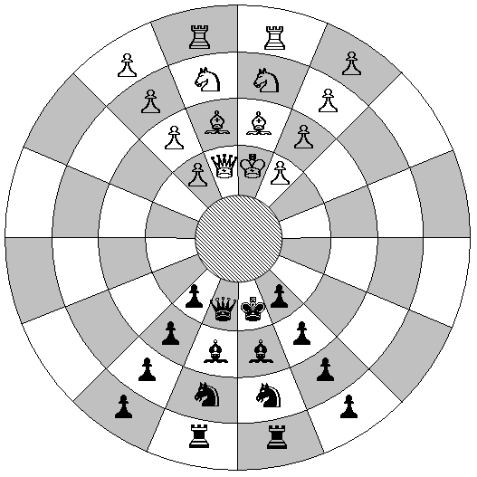 Depicts the starting position of the pieces for the variant of circular chess developed in 1983.